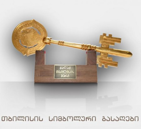 Symbolic Key of the Mayor of Tbilisi